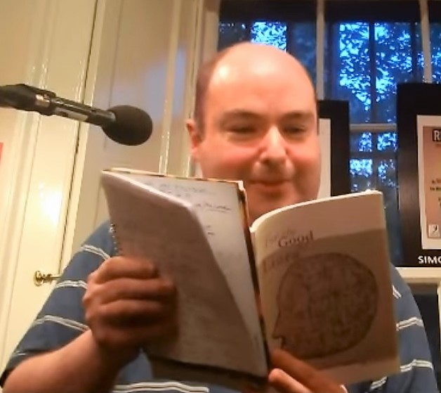 Peter Manson Love Poem Against Poets, Aug 13 Peter Manson reading "Love Poem" from For the Good of Liars at Word Power Books in Edinburgh (Against Poets, 13/08/12).